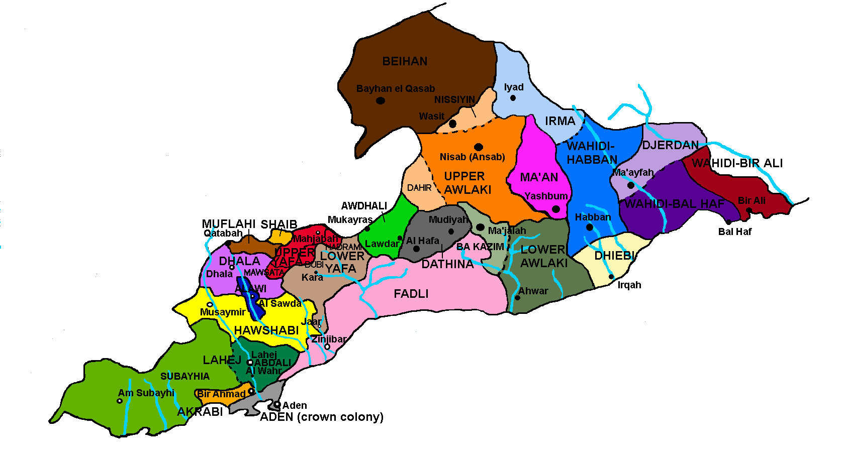 Map of Western Aden Protectorate